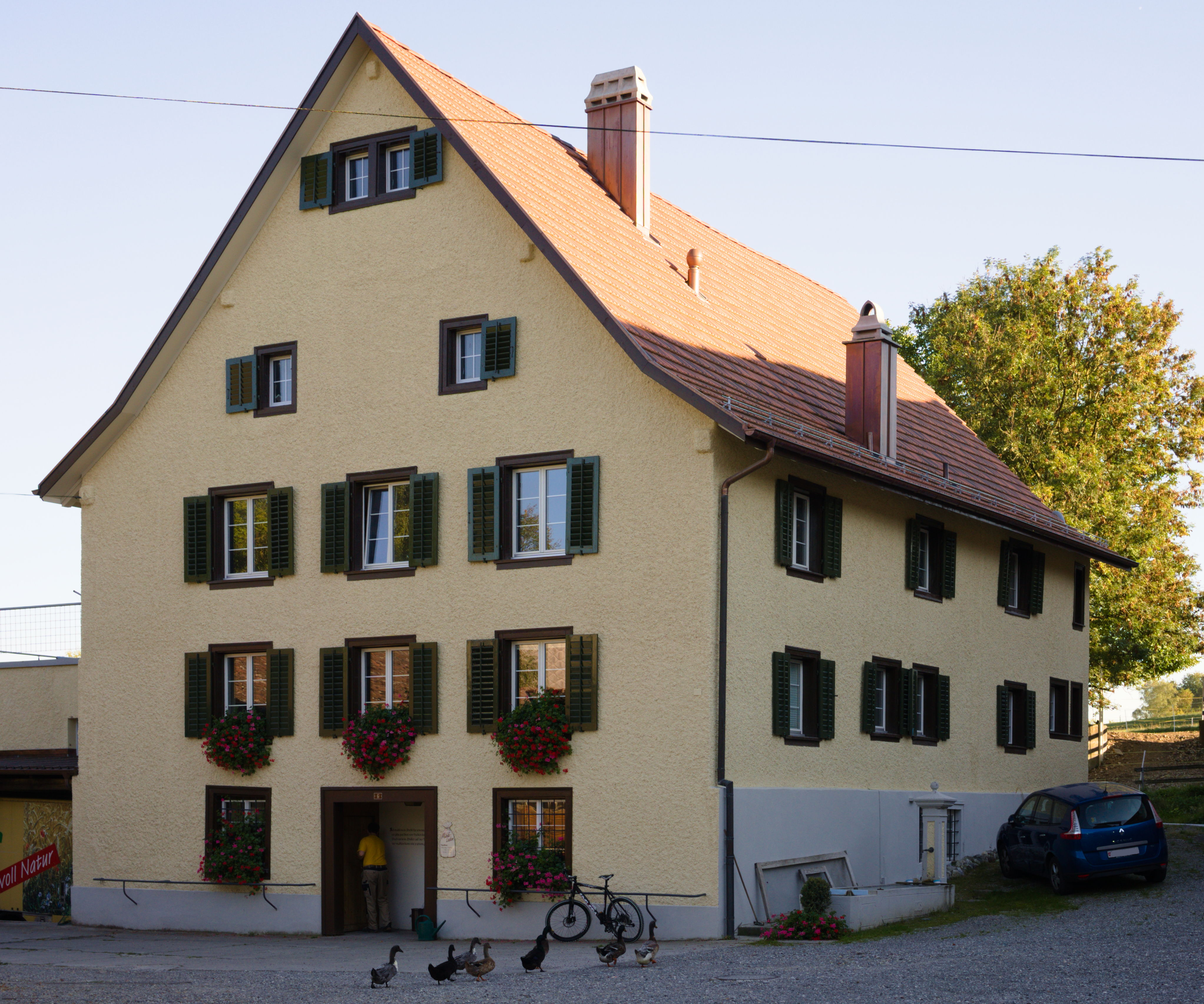 Bachman's mill (Mühle Bachmann) - house